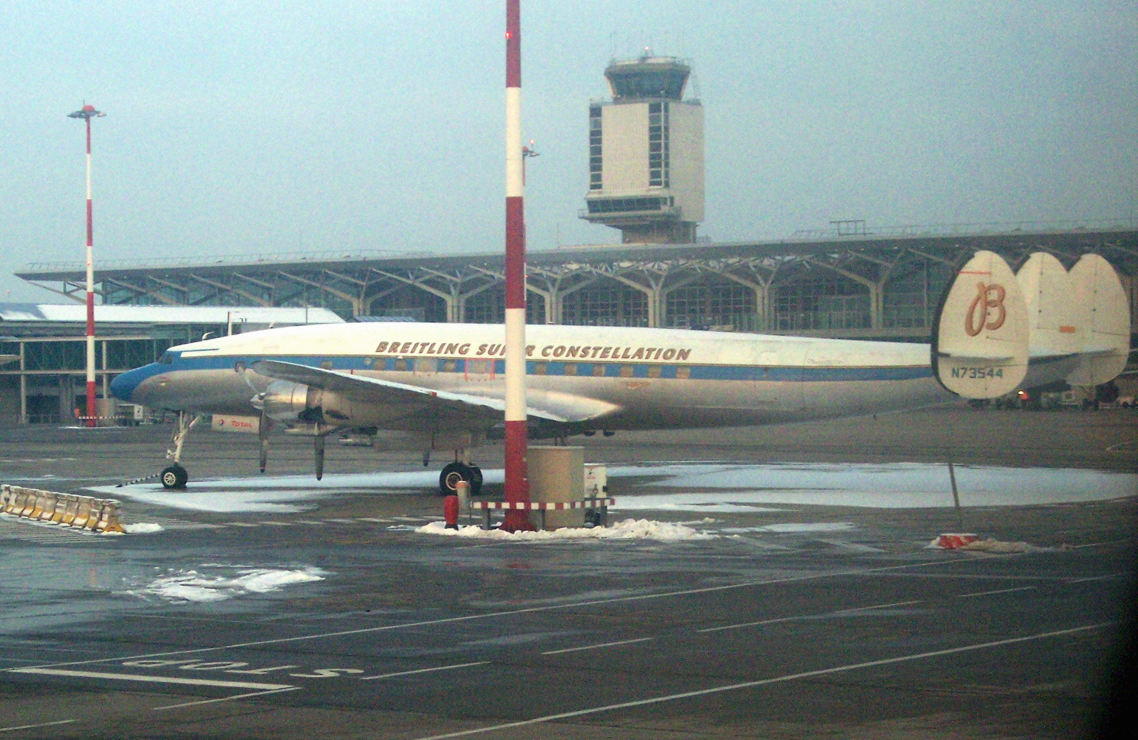 Lockheed Super Constellation at the EuroAirport in 2006 (former USAF C-121C, s/n 54-0156, c/n 4175).